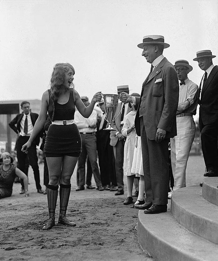 Title: Beauty show, 1922, [8/5/22] Abstract/medium: National Photo Company Collection (Library of Congress) Physical description: 1 negative